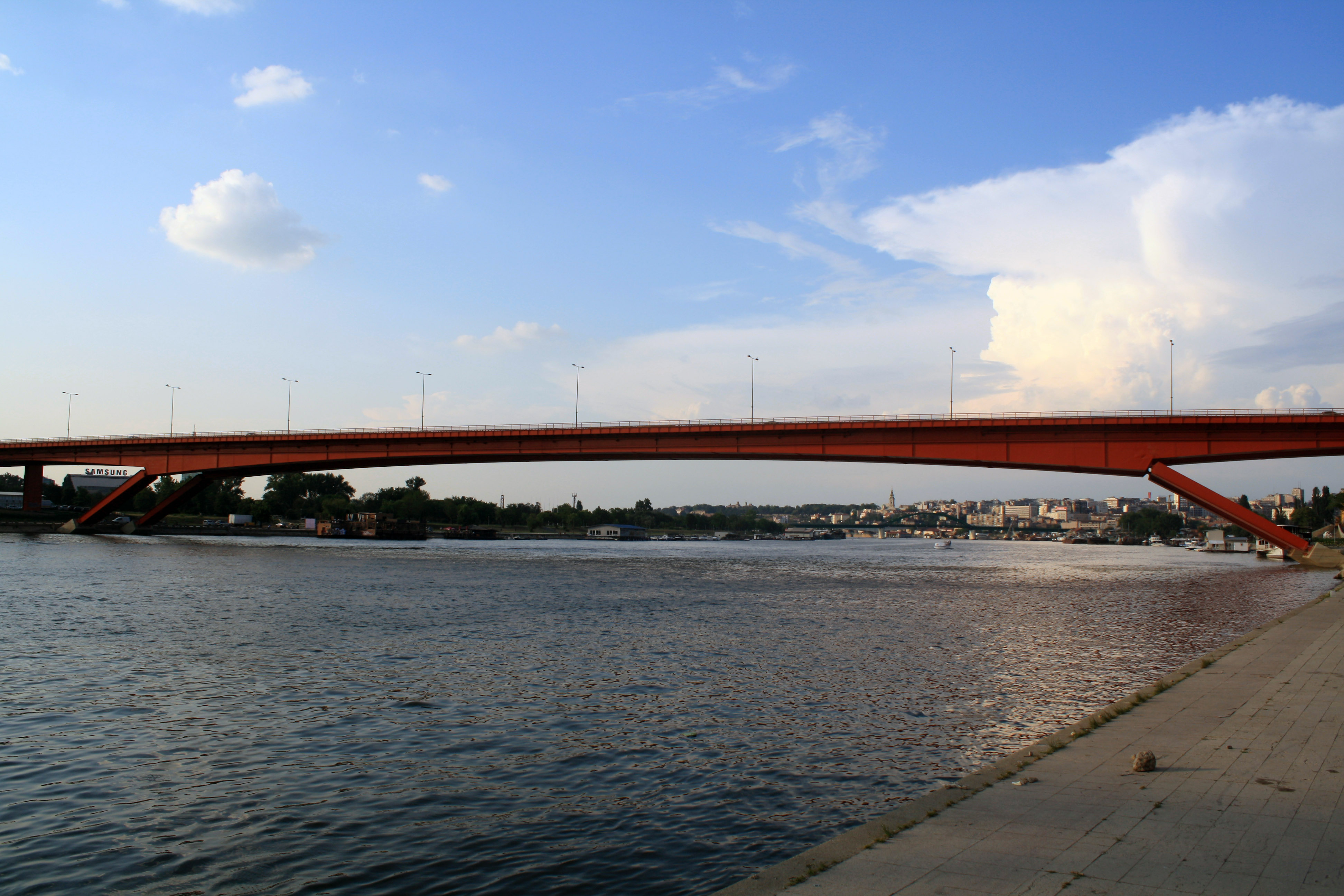 Gazela bridge in Belgrade over the Sava river.